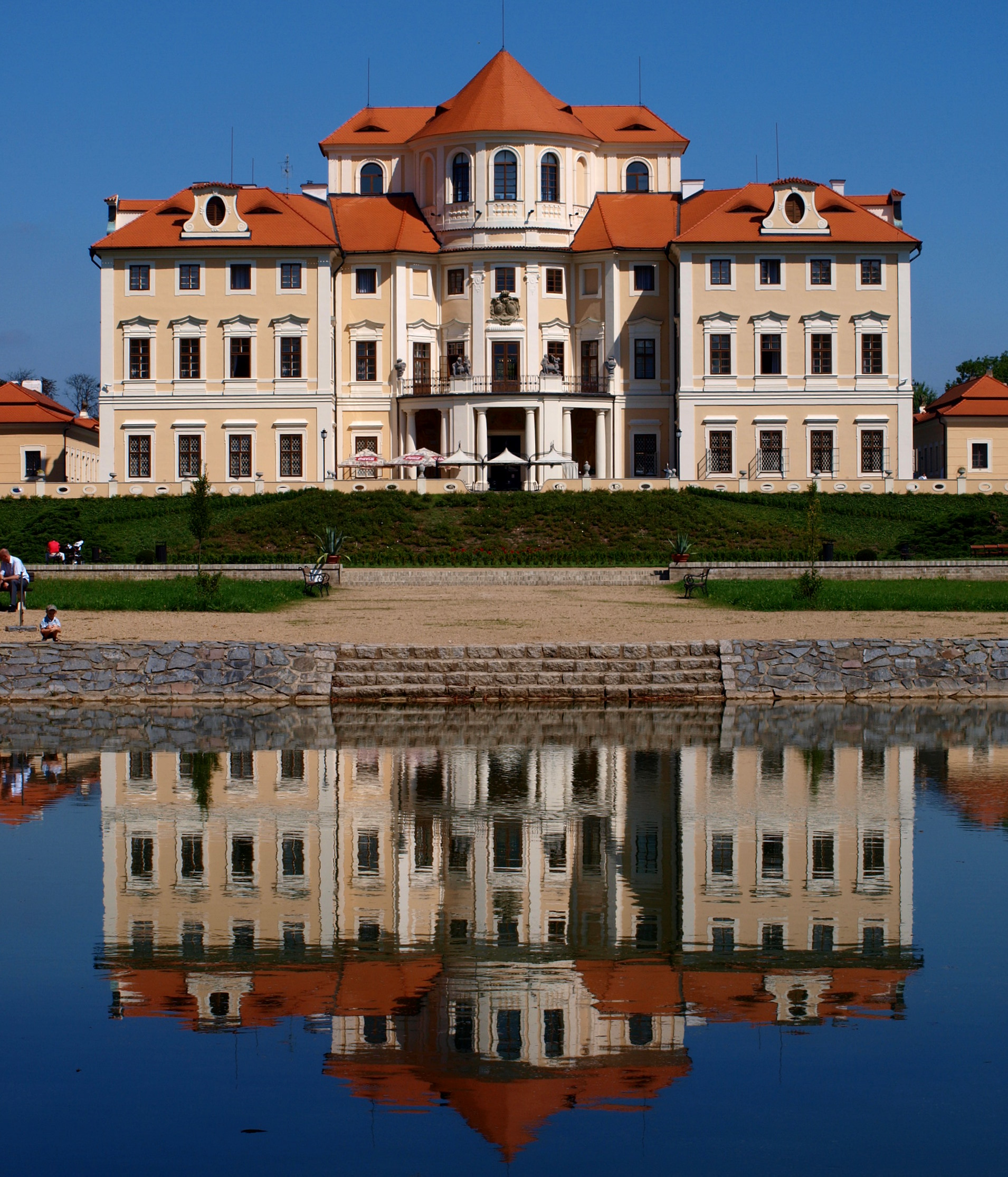 The Liblice Chateau near Mělník, Czechia